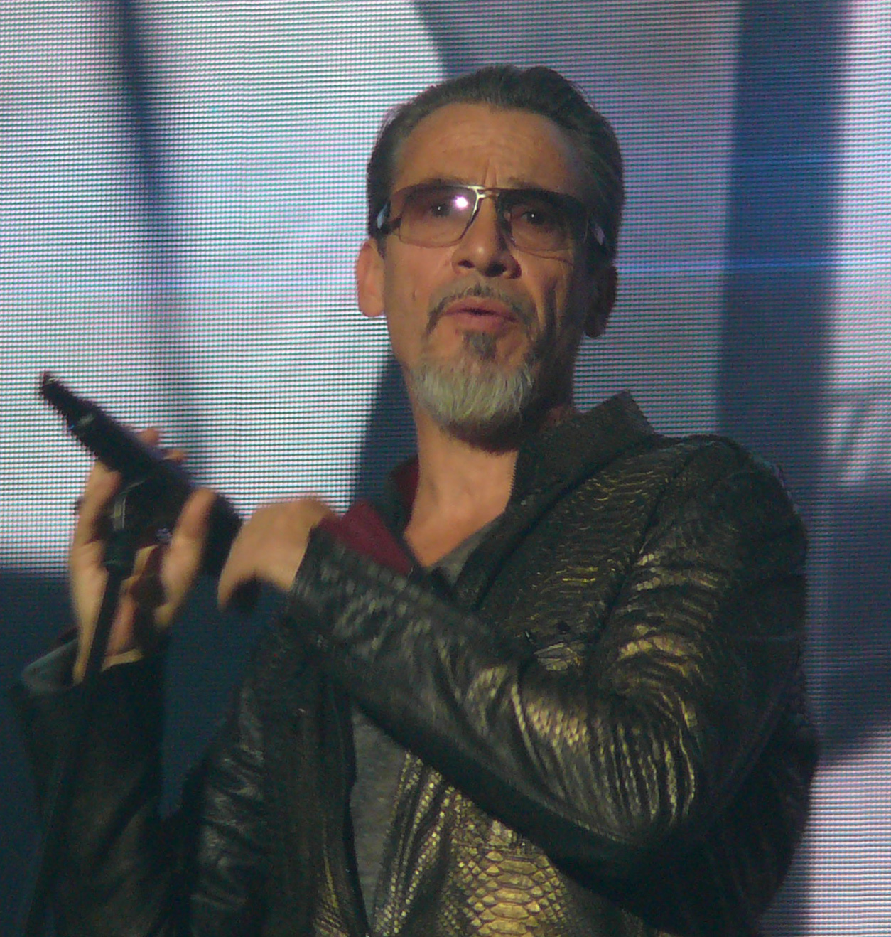 Singer Florent Pagny in concert at Forest National, in Brussels, in Belgium, in 2017, during his 55 tour